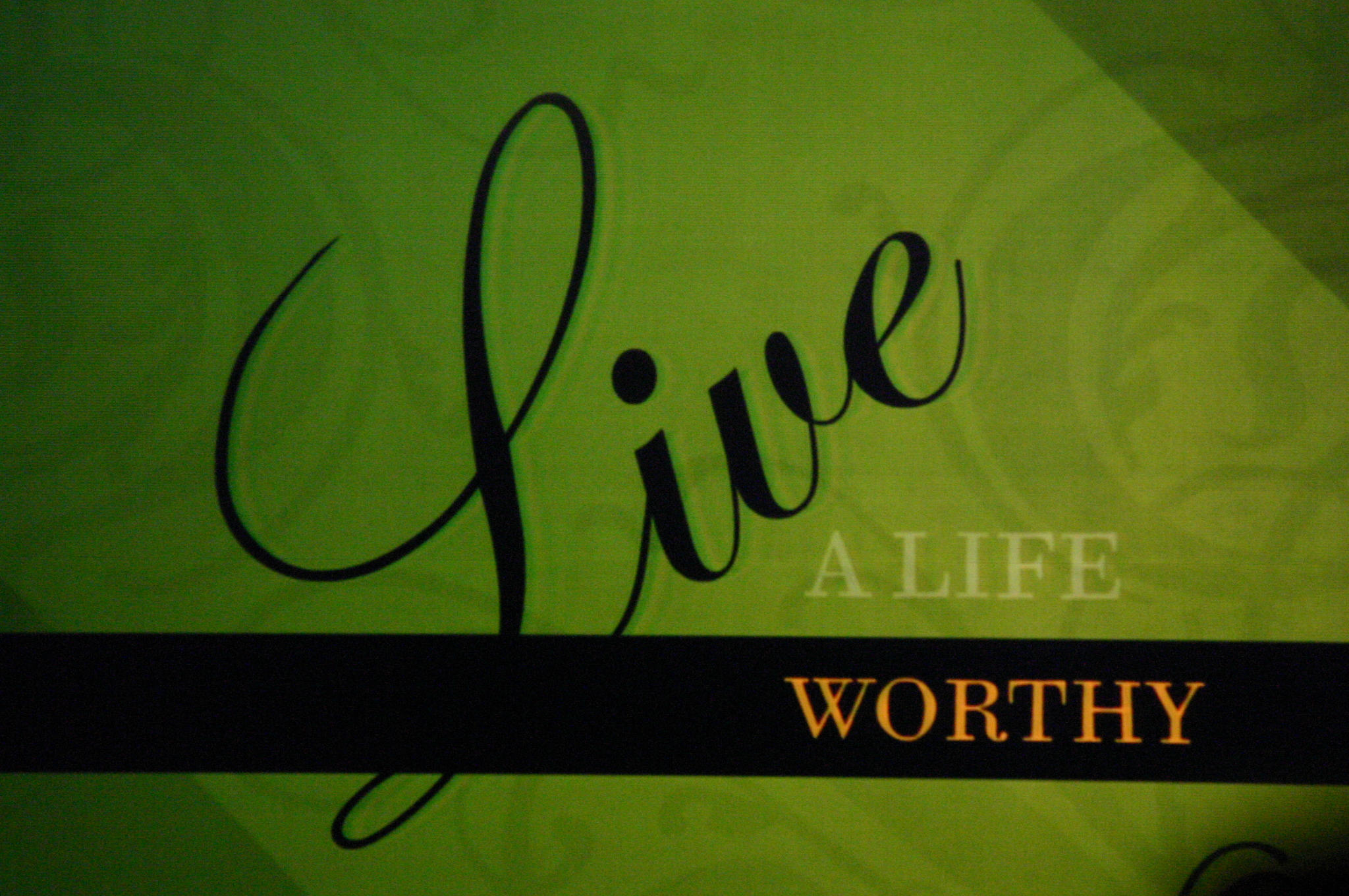 Urbana 2006 motto: Live a Life Worthy of the Calling